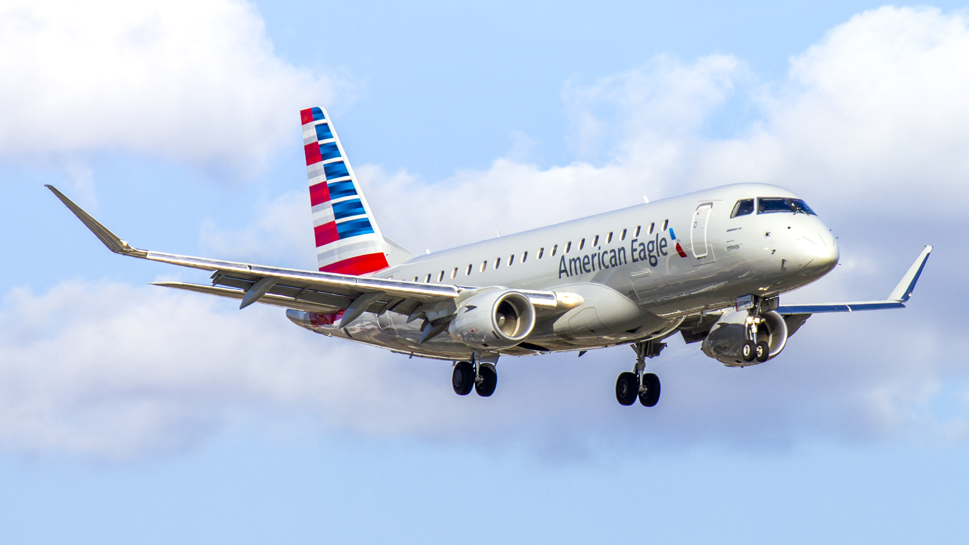 Envoy (American Eagle) Embraer 175LR N279MQ landing in Toronto